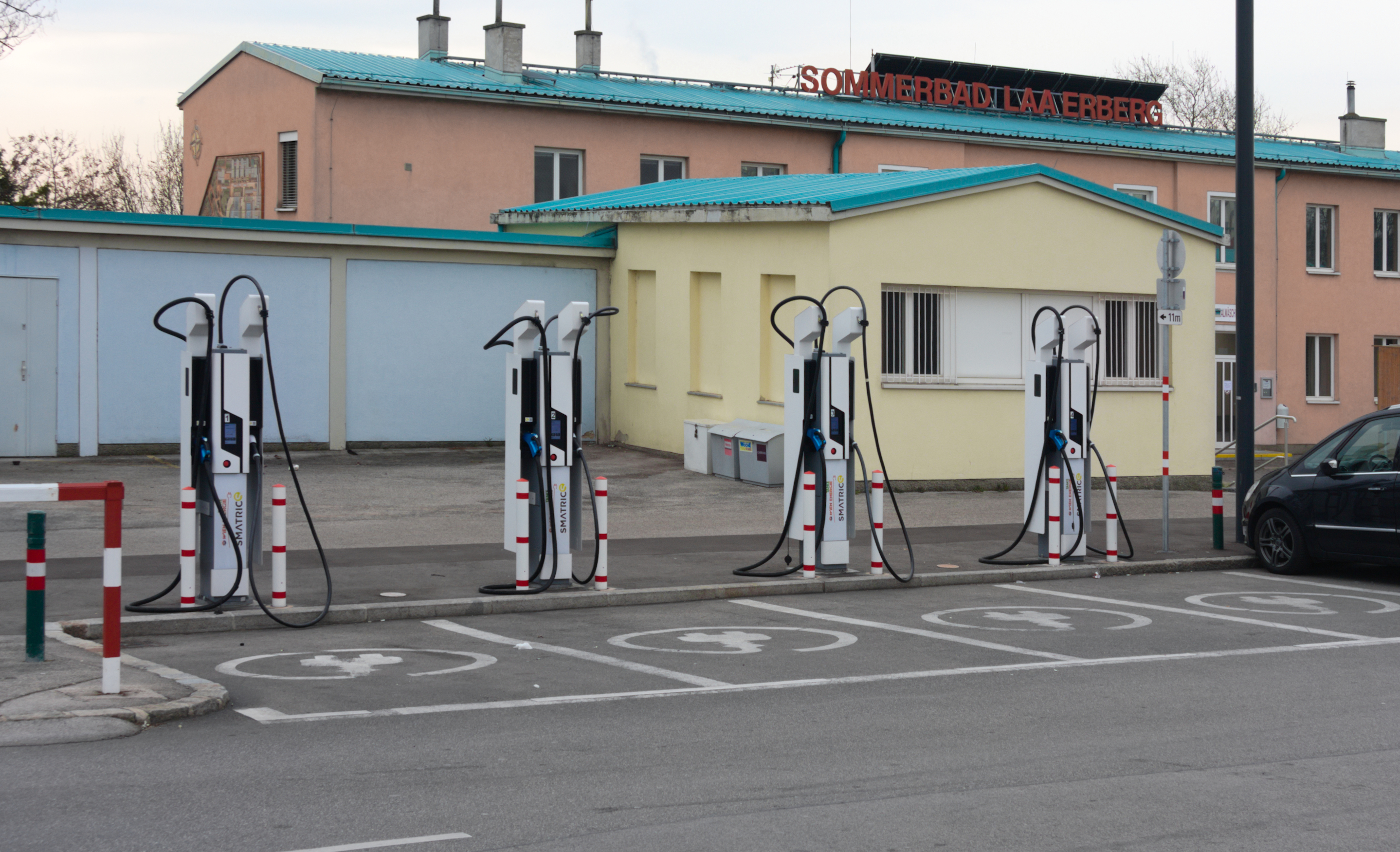 The high performance charging site near Verteilerkreis Favoriten at Ludwig-von-Höhnel-Gasse 2, Vienna, Austria